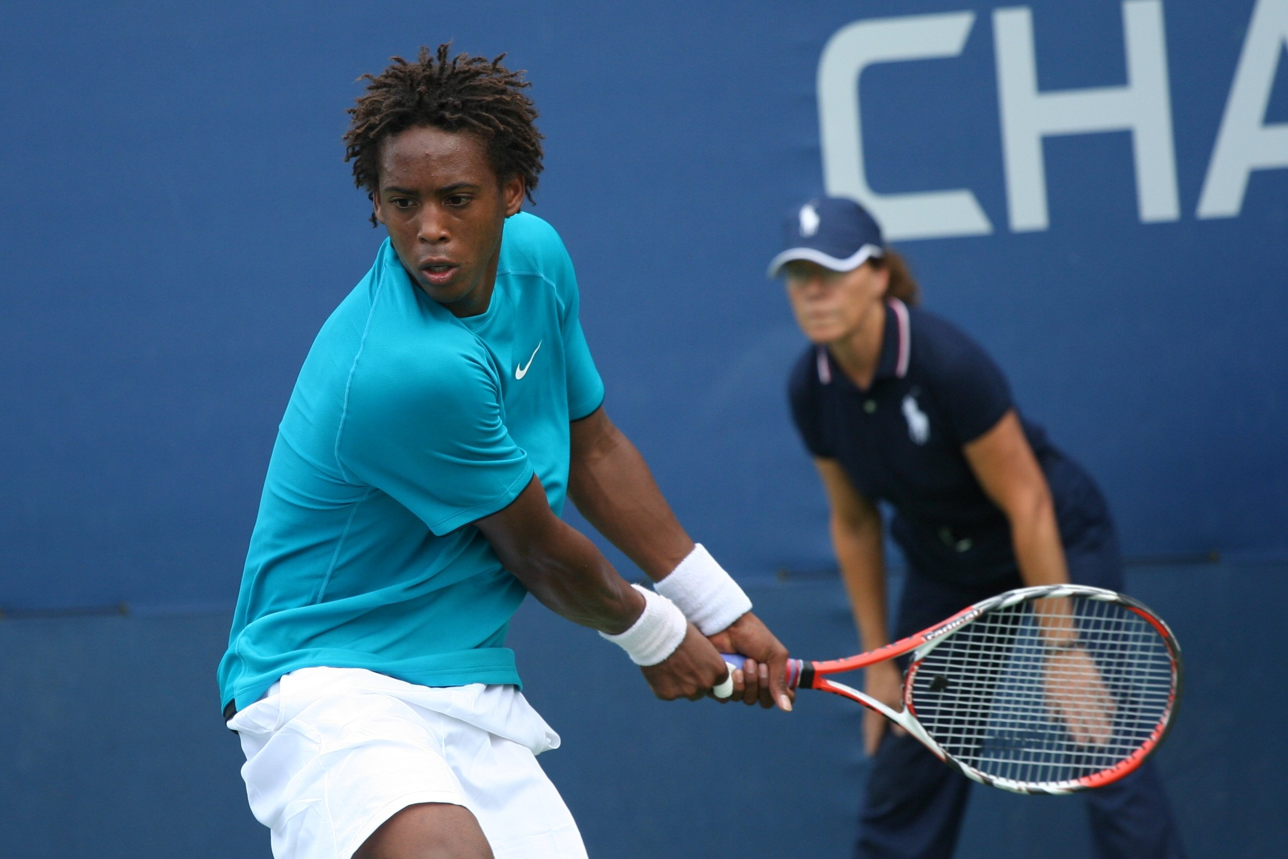 U.S. Open Juniors Sept. 8, 2009